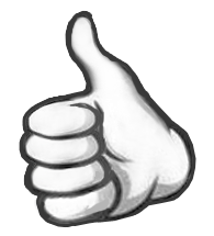 Thumbs up Icon